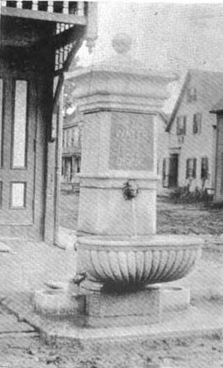 Louisa Dow Benton designed and gave the Benton Fountain to the city of Lancaster, New Hampshire in memory of her husband, Jacob Benton, a long-time resident.